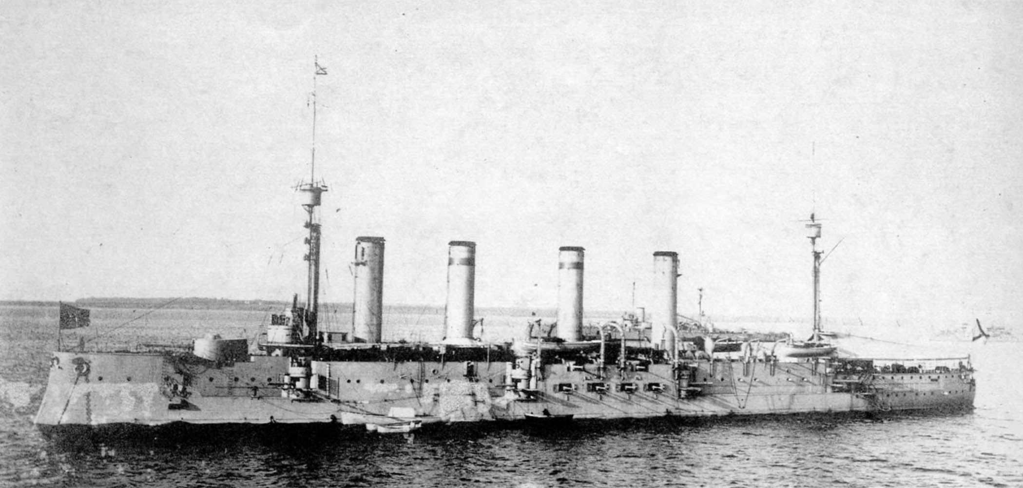 Crew of armoured cruiser Pallada